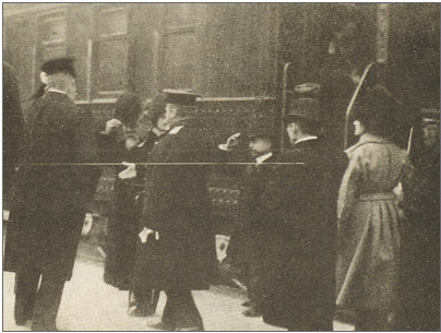 Ito Hirobumi and Vladimir Kokovtsov at the Harbin [Railway] Station. [Ito (second on the left) before being gunned down by An Jung-geun]